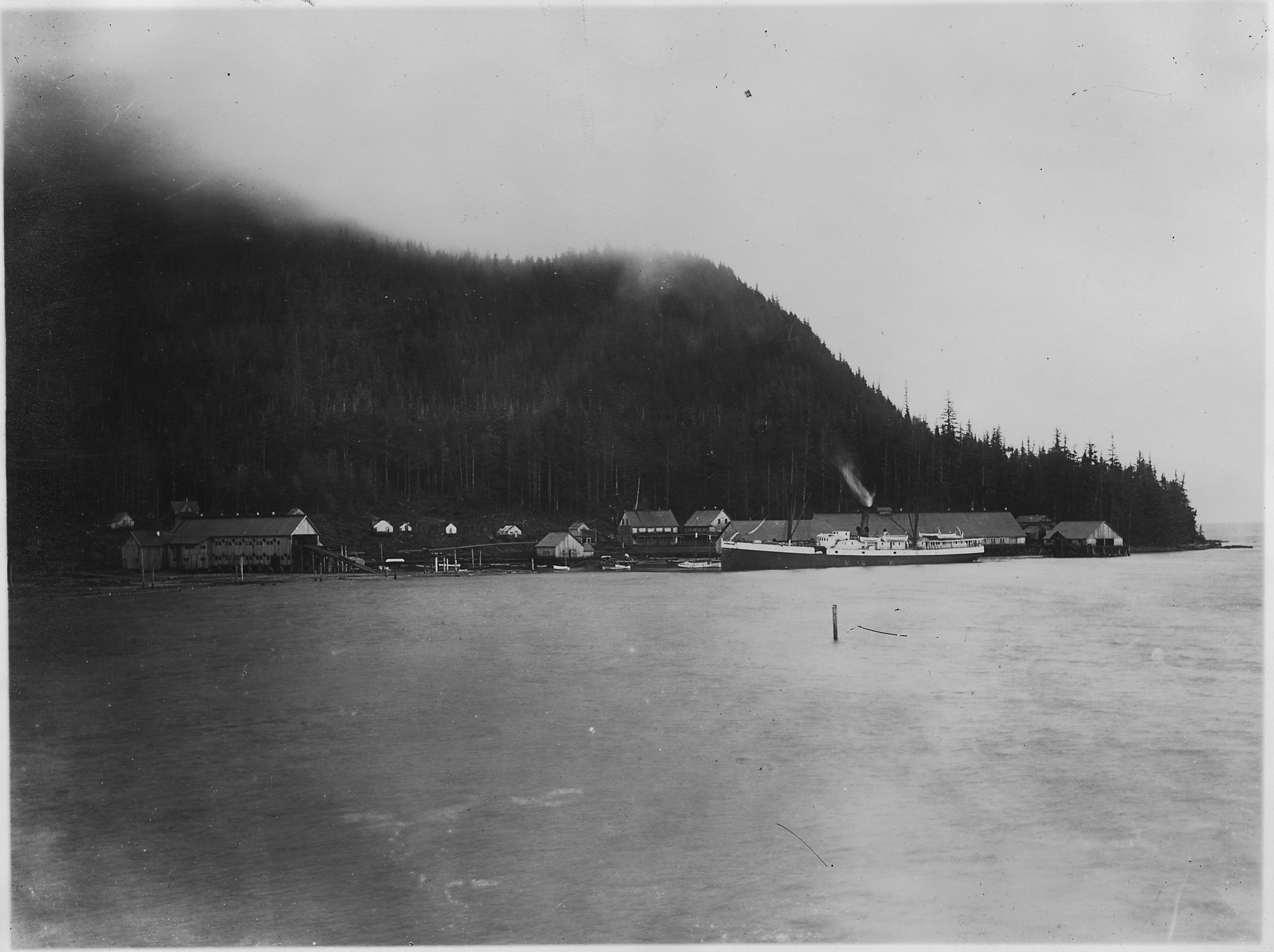 Scope and content: On Backing: "Note--Mrs. Minthorn does not think this is Metlakahtla, Alaska. (Feb. 1926.)